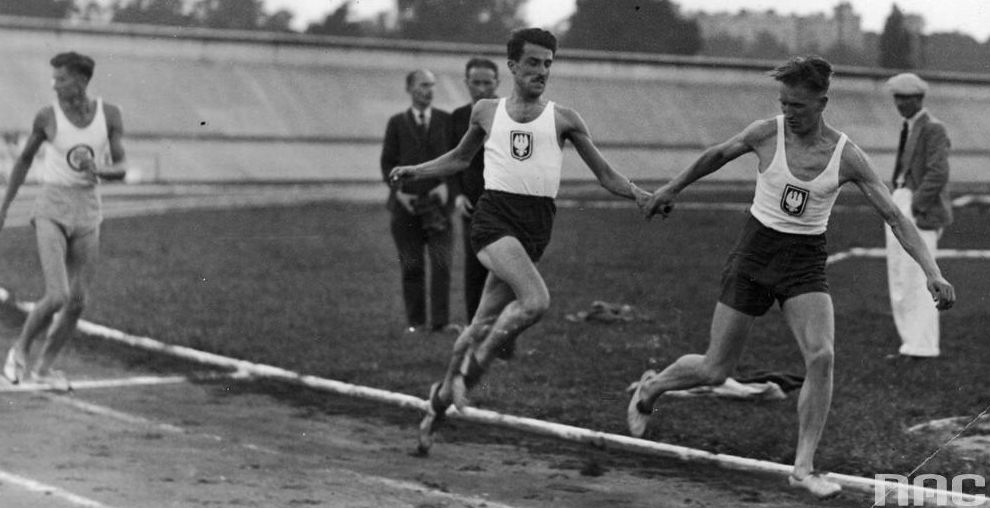 Stefan Kostrzewski